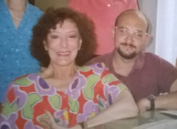 Delia Nora Salvi with Vincenzo Delehaye in Naples (Italy) in August 1992.